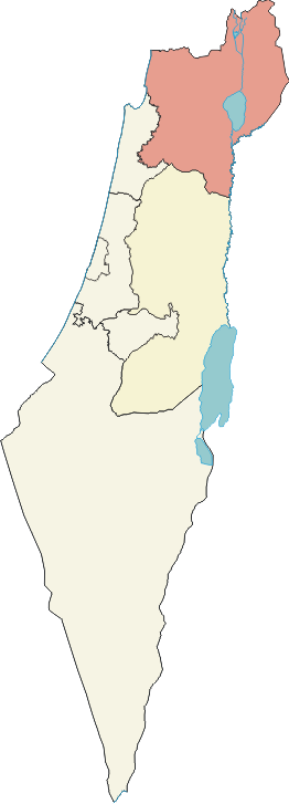 North District of Israel.